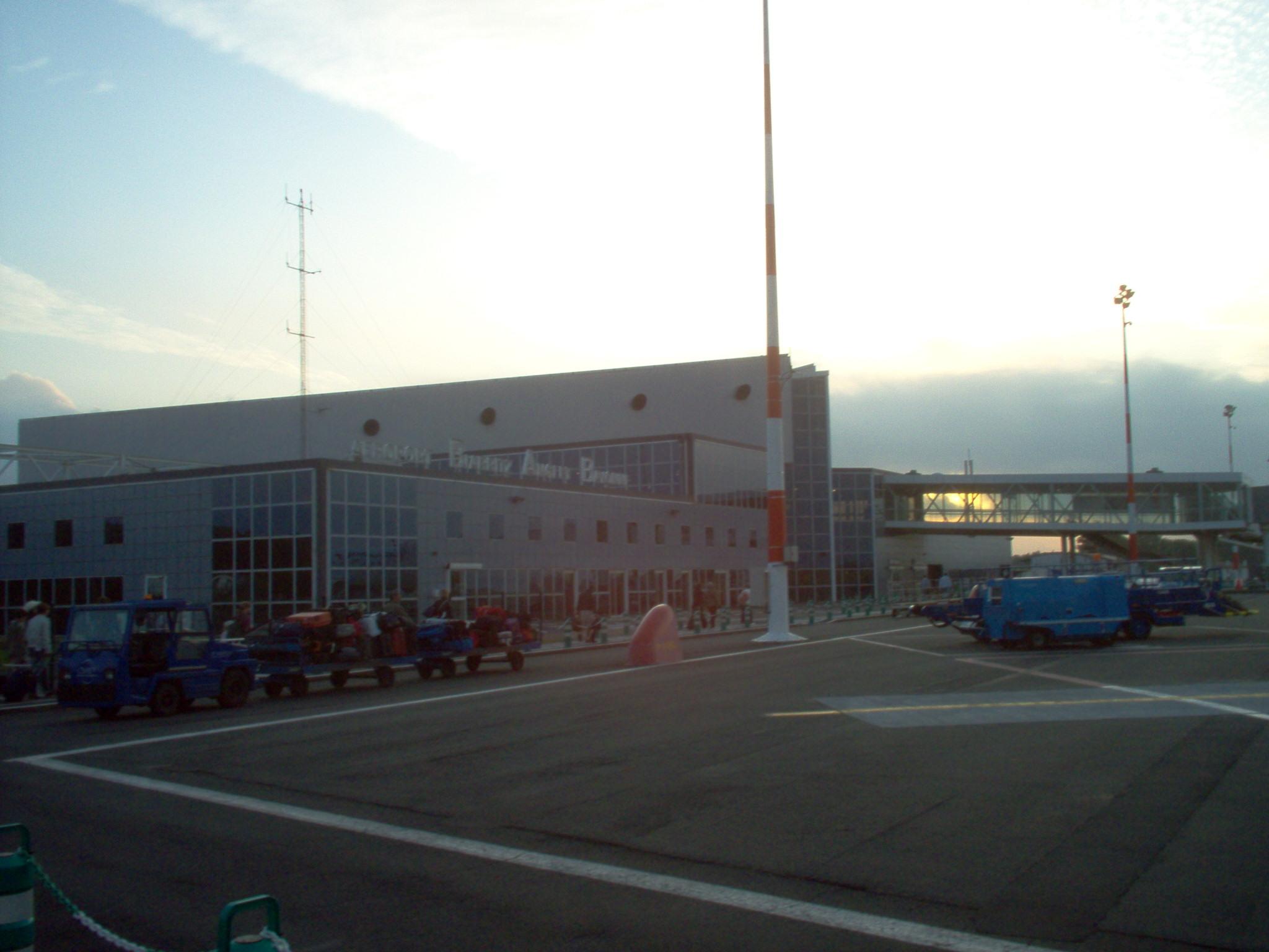 Airport of Biarritz-Anglet-Bayonne (code IATA: BIQ). View from the landing strip.